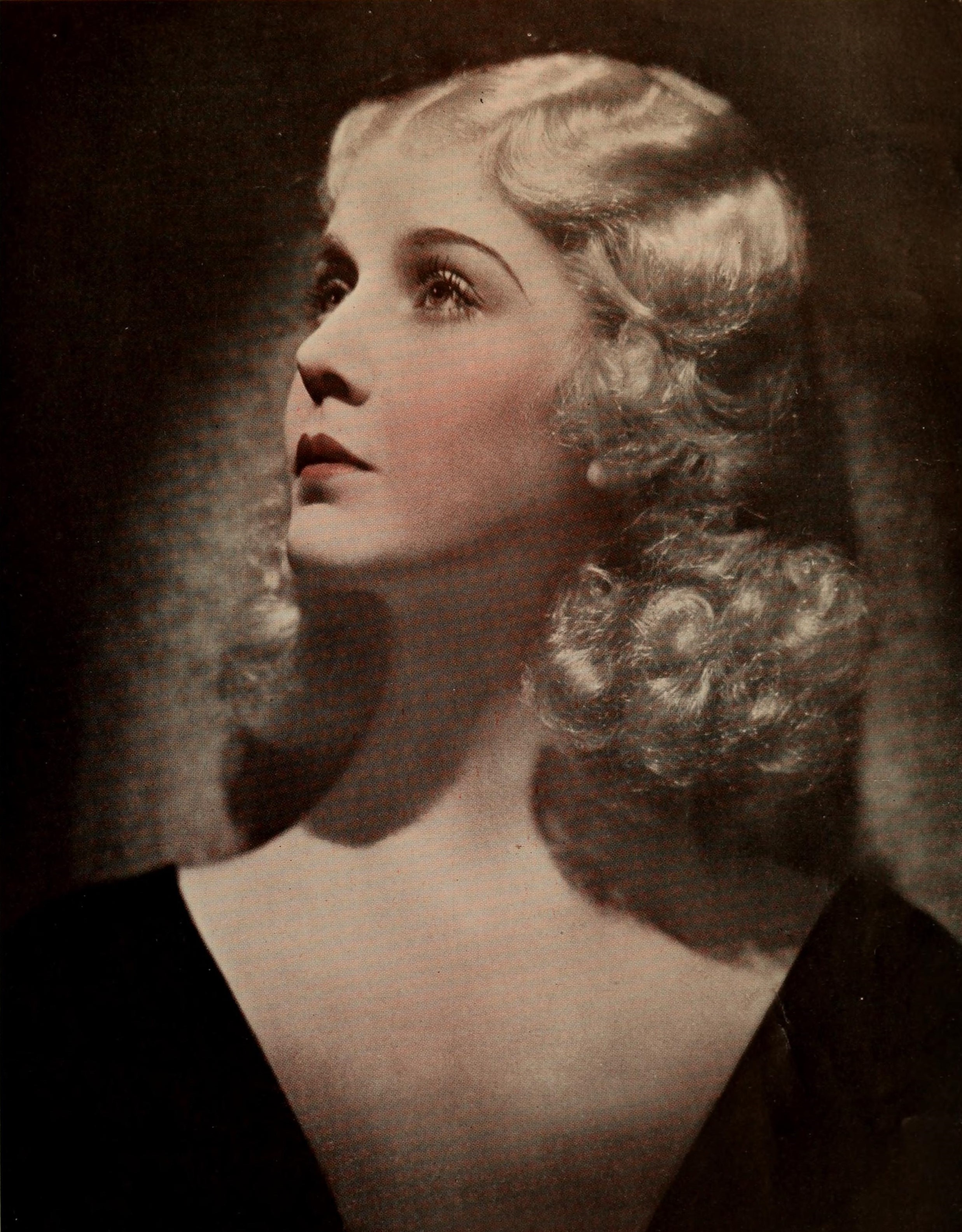 Colored portrait of Anita Louise